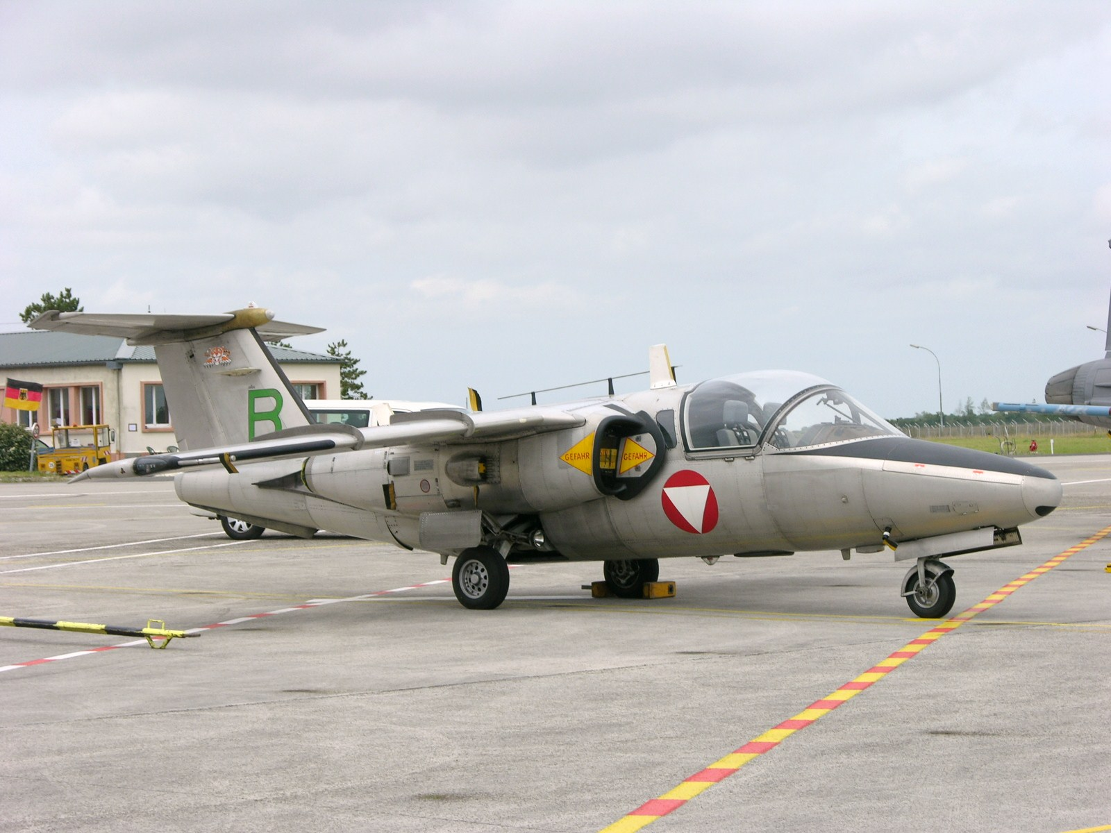 The Austrians have been operating these little Swedish trainers for donkey's years. Still going strong.